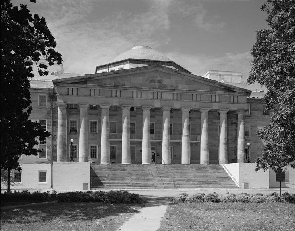 The portico of the Portsmouth Naval Asylum (Naval Hospital), designed by John Haviland (1827)